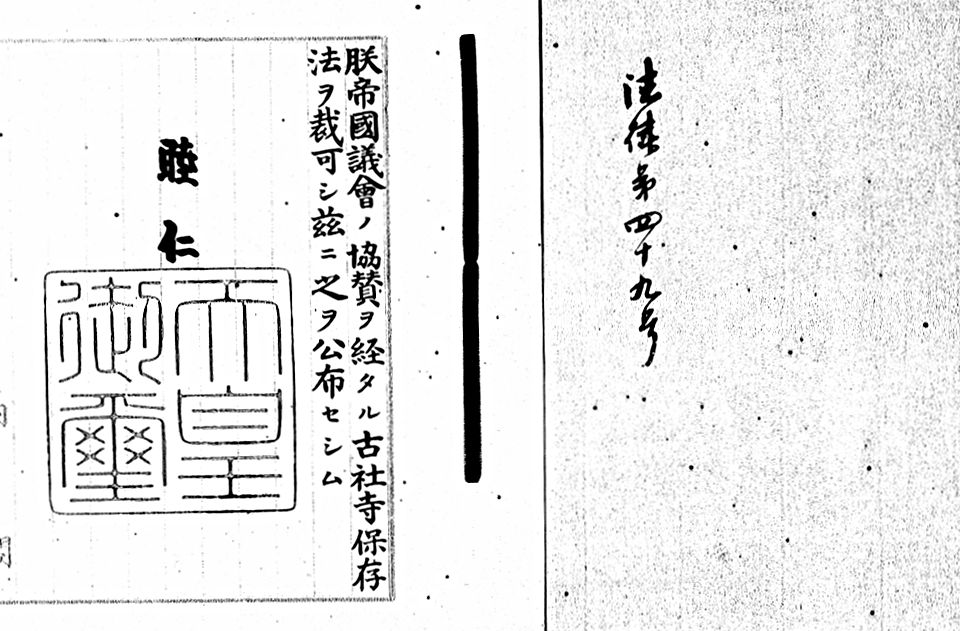 The Meiji emperor signature and the Privy Seal of Japan on the original script of the Law No. 49 of 1897 enacting the Law for ancient temples and shrines preservation.